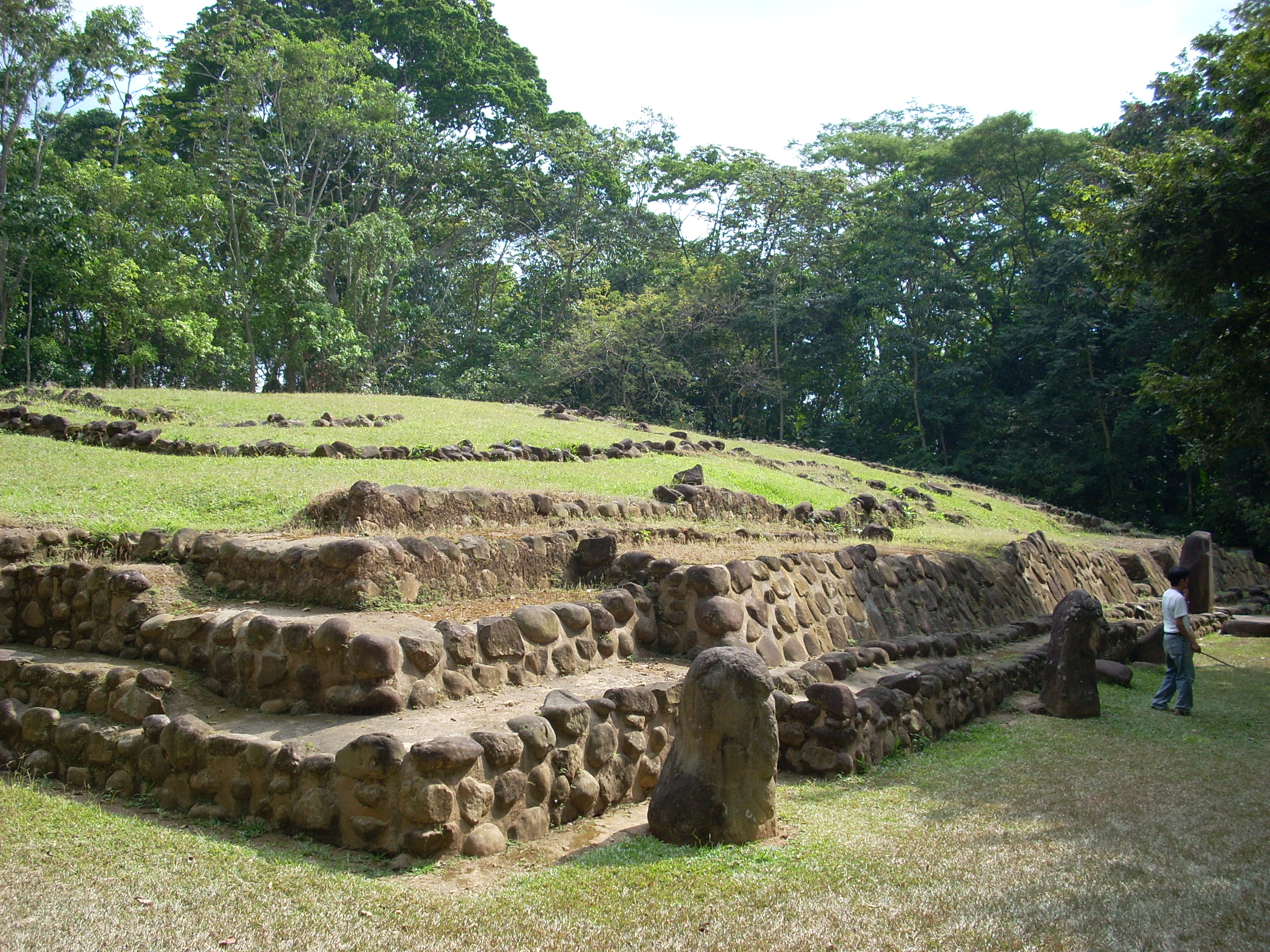 Structure 12 at Takalik Abaj.